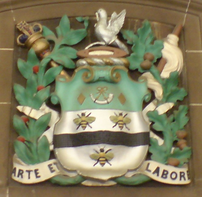 The coat of arms for Blackburn in Lancashire. This is a carving above a doorway in the foyer of the town hall.